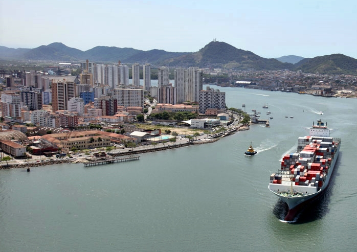 Navio de carga entrando no canal do Porto de Santos, São Paulo, Brasil.